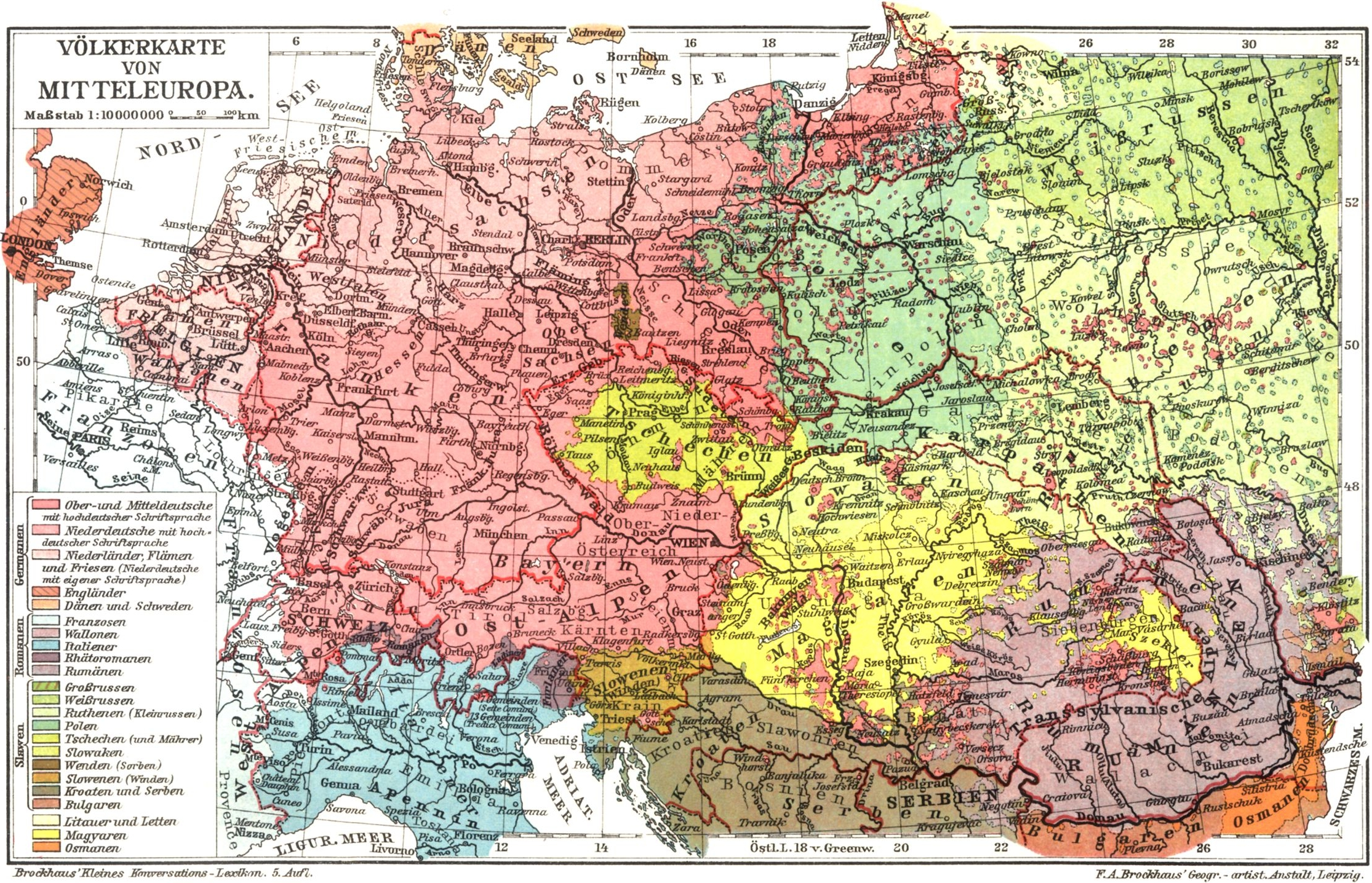 Ethnic map of Central Europe.